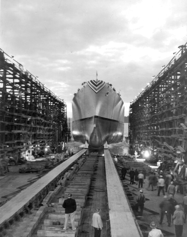 Launching of the U.S. Navy escort carrier USS Rabaul (CVE-121) at the Todd Pacific Shipyards, Tacoma, Washington (USA), on 14 July 1945.